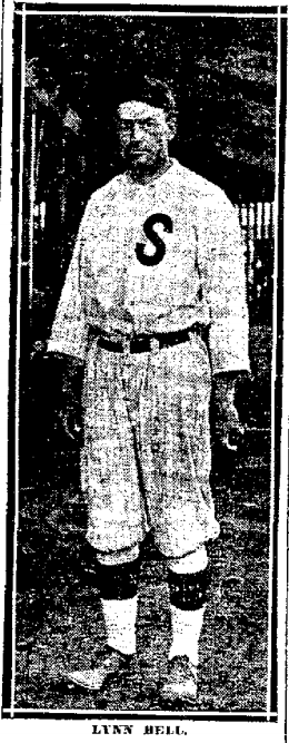 Photograph of Lynn Bell